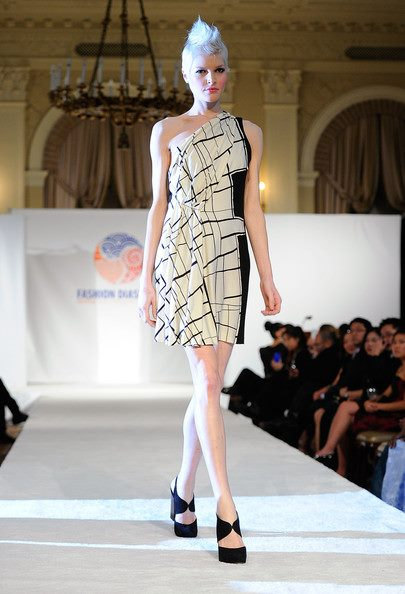 Korean Cultural Service NY is proud to help sponsor FASHION DIASPORA - WEARING YOUR CULTURE ON YOUR SLEEVE along with Smithsonian Institution, East Rock Institute (ERI), Metropolitan Arts League, Korean Cultural Service (KCS) of New York, National Museum of Ethnology (Japan), and Sungshin Women’s University (South Korea).